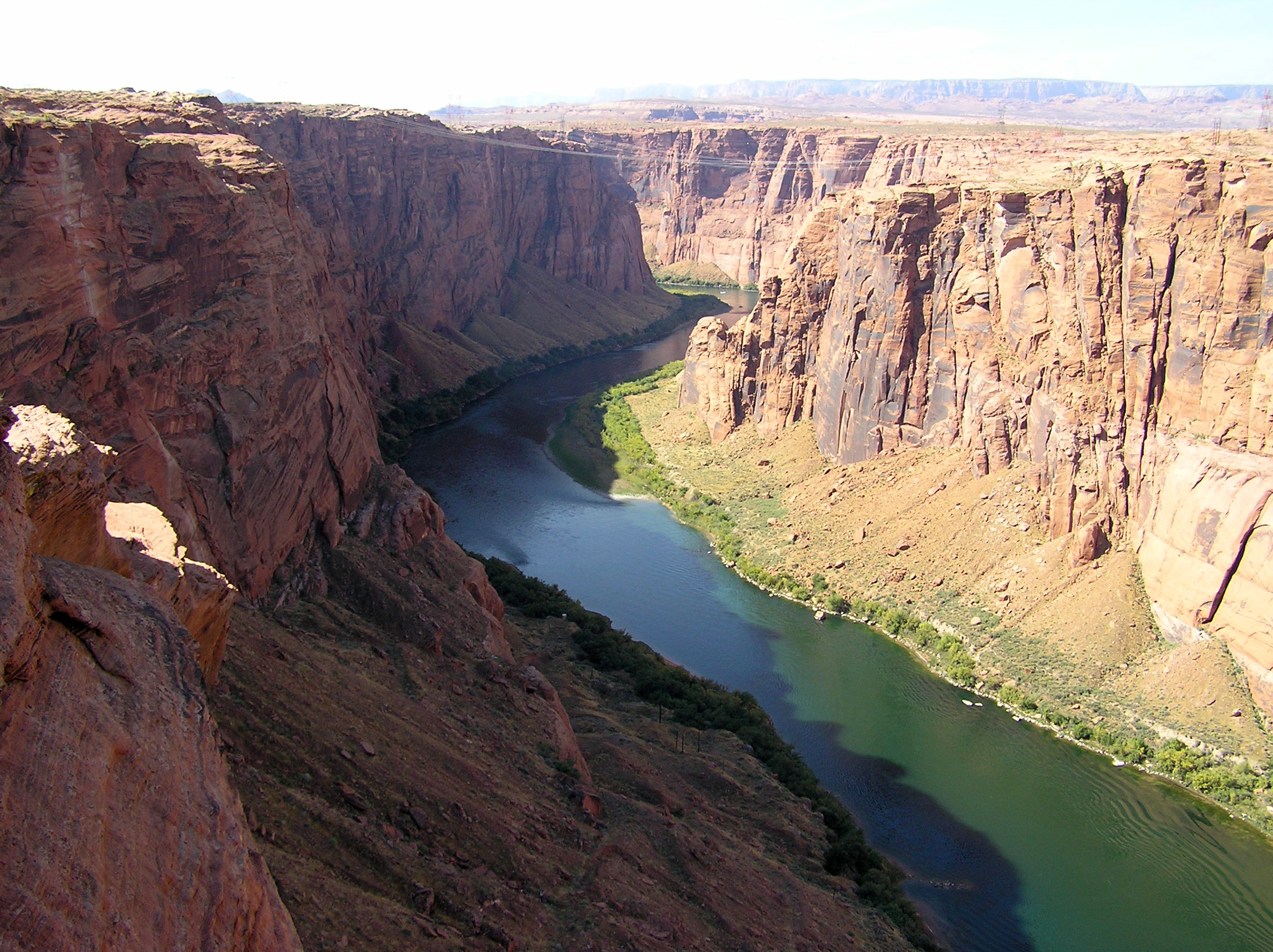 Encompassing over 1.2 million acres, Glen Canyon National Recreation Area (NRA) offers unparalleled opportunities for water-based & backcountry recreation. The recreation area stretches for hundreds of miles from Lees Ferry in Arizona to the Orange Cliffs of southern Utah, encompassing scenic vistas, geologic wonders, and a vast panorama of human history.